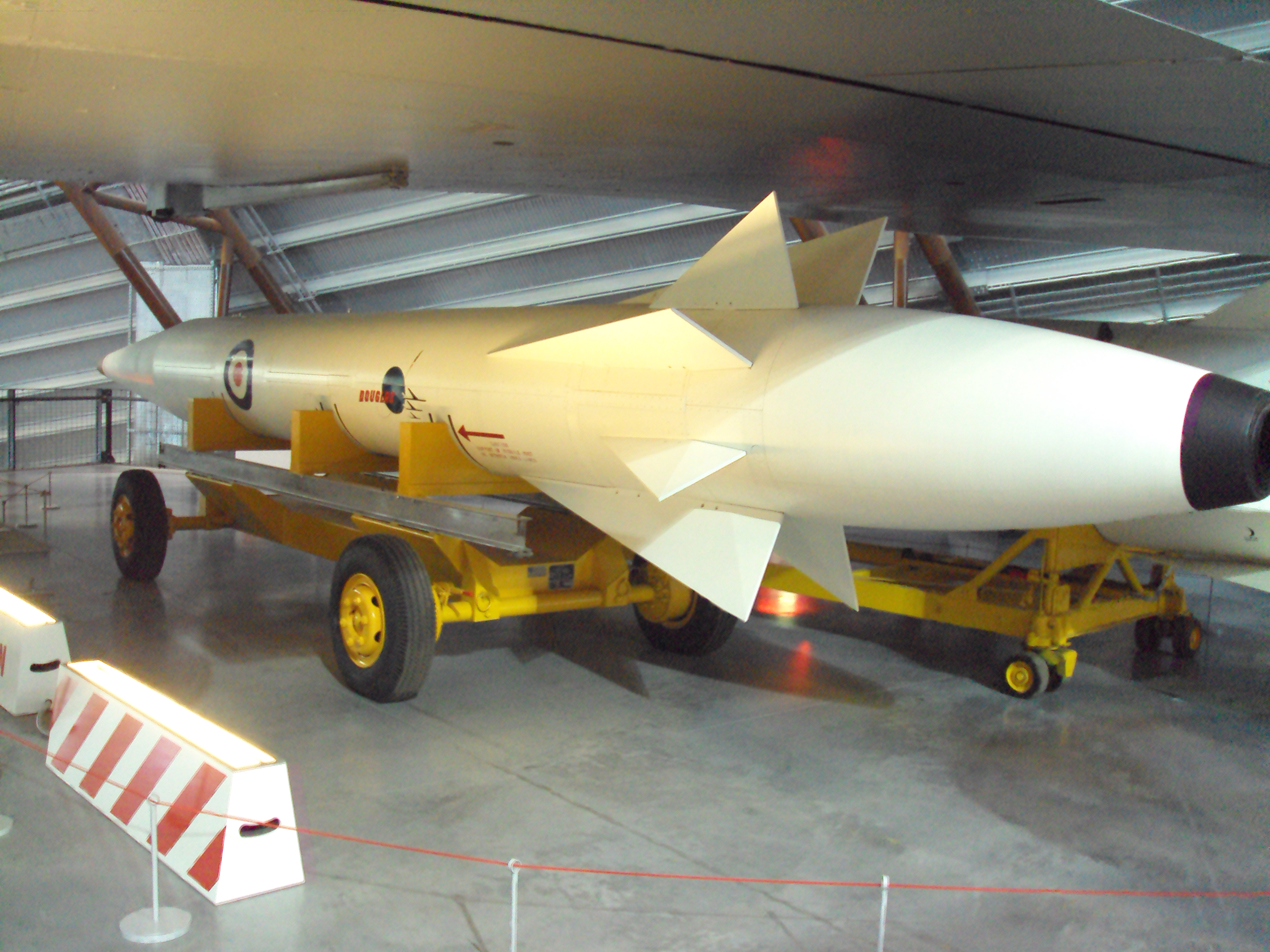 Douglas GAM-87 Skybolt air-launched ballistic missile (prototype or engineering model of cancelled missile program). Photo taken at the RAF Museum Cosford, Shropshire, England.